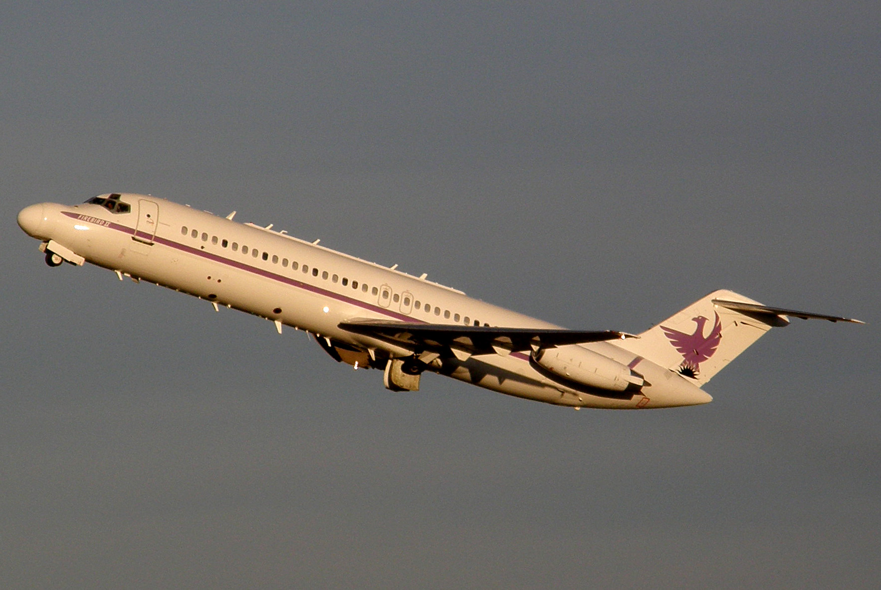 DC-9-30 Firebird II operated by the U.S. Navy as an electronic surveillance aircraft. Based at Mojave, operated out of China Lake.